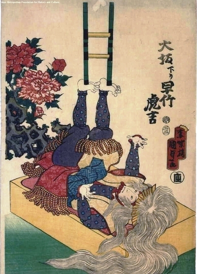 Japanese Acrobat performer, Hayatake Torakichi from Osaka / Kunisada II, 1857